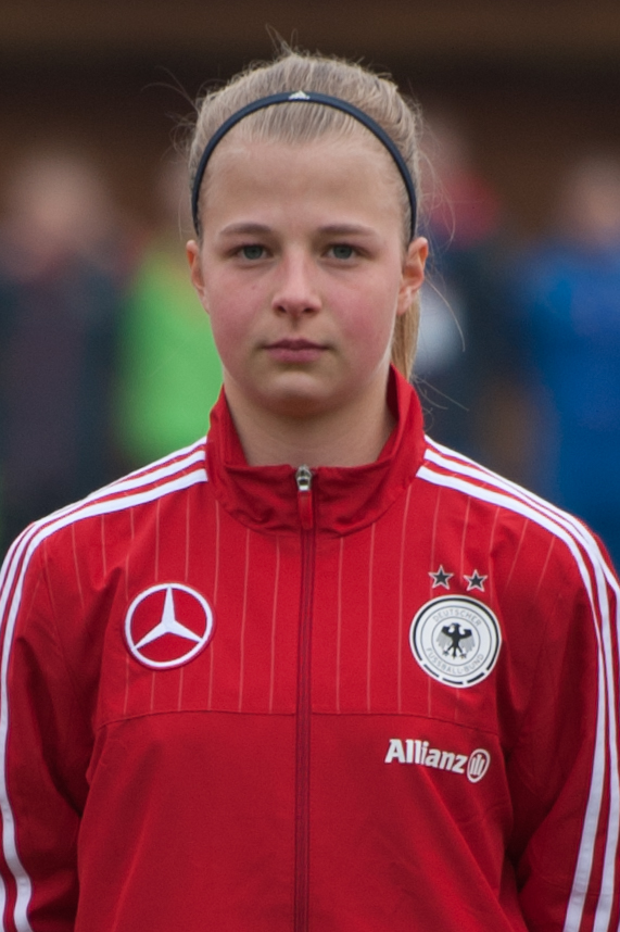 UEFA European Women's U17 Championship elite round Germany vs. Switzerland, 2016-03-19